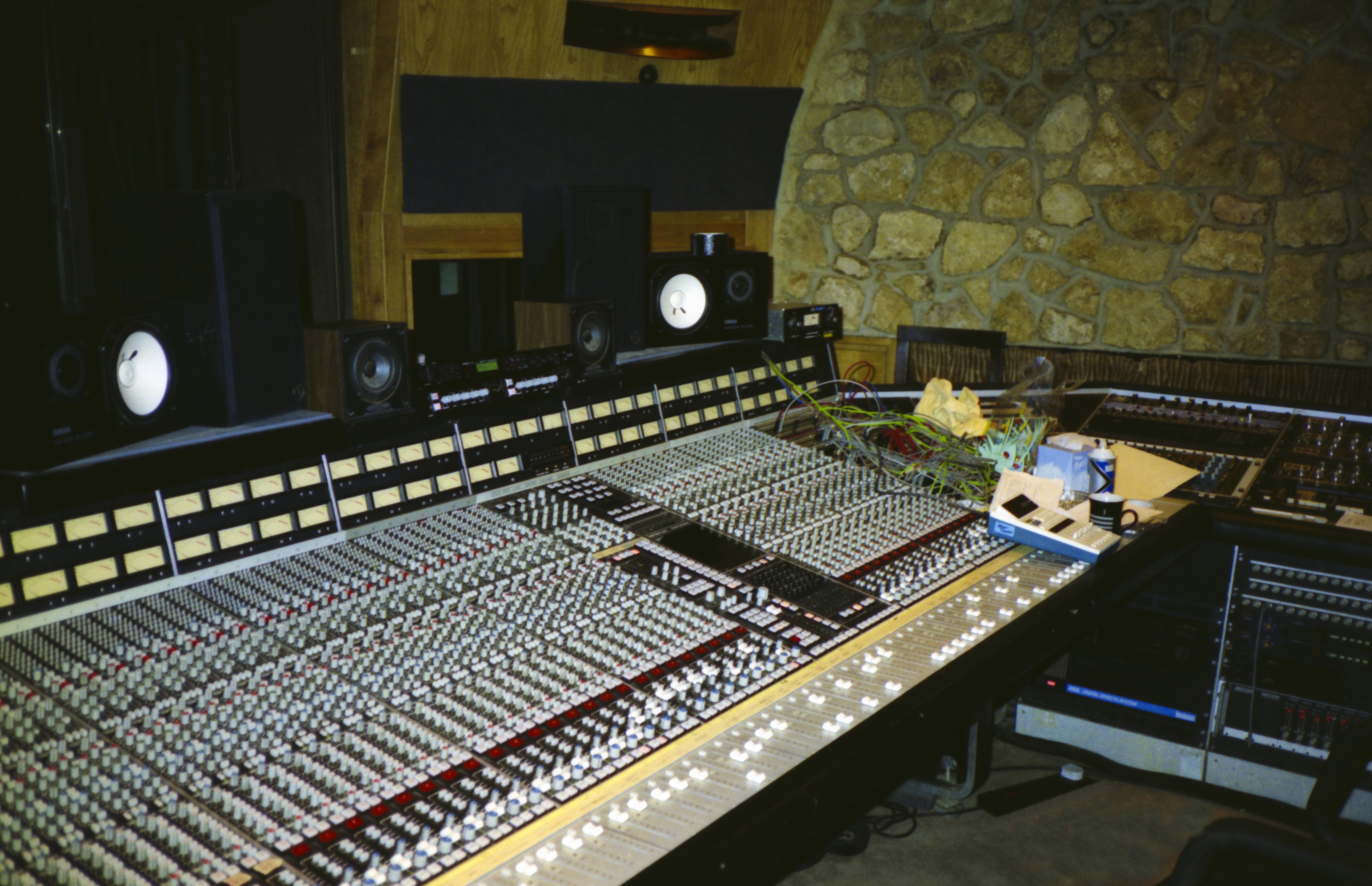 The Manor Studios Control Room Neve 80 series console (i.e. 80xx)